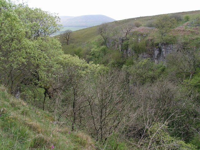 Ling Gill. Looking SW over Ling Gill National Nature Reserve from the Pennine Way